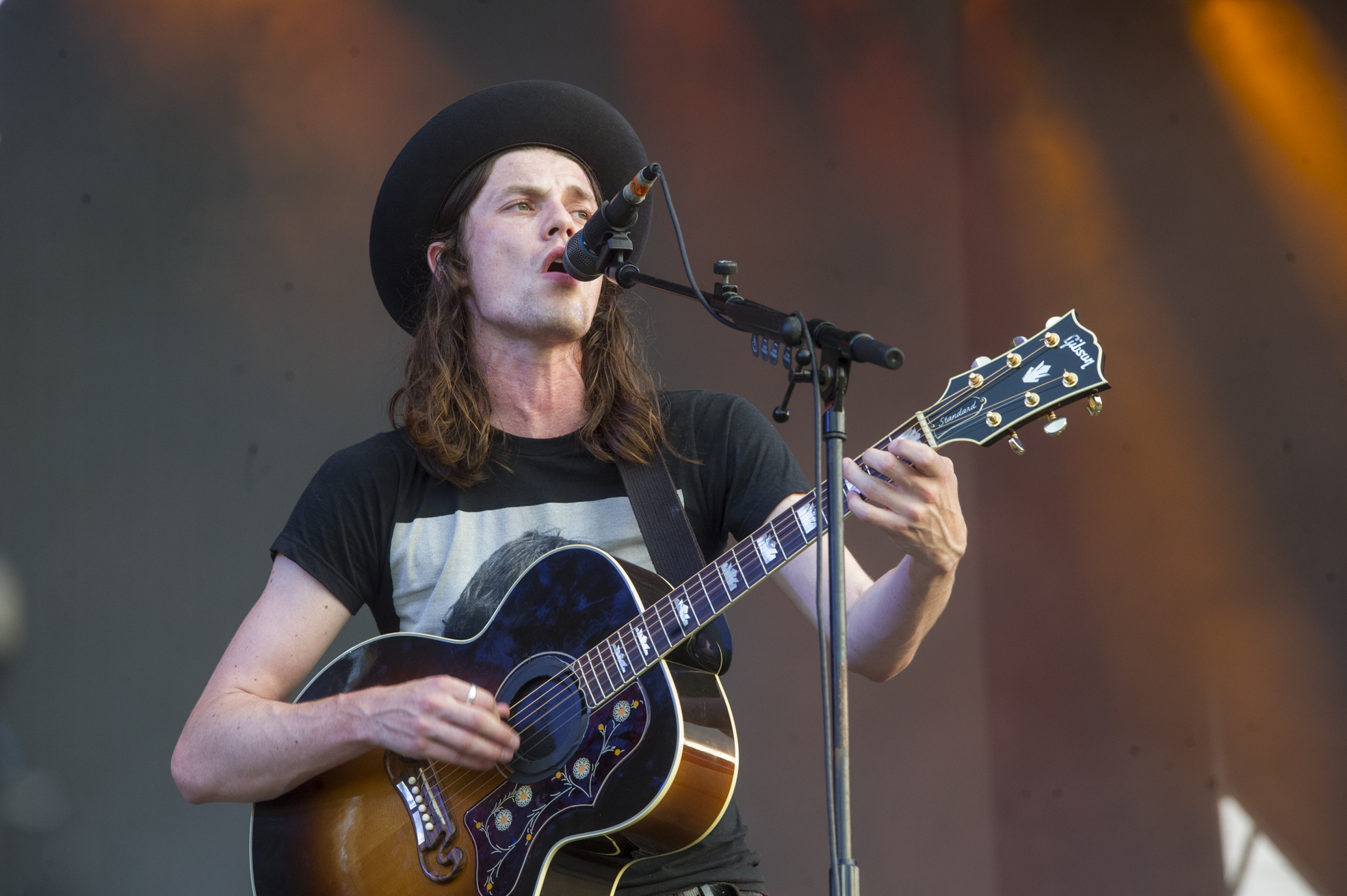 James Bay at Gibraltar Music Festival 2015 (III) on 6 septiembre 2015.